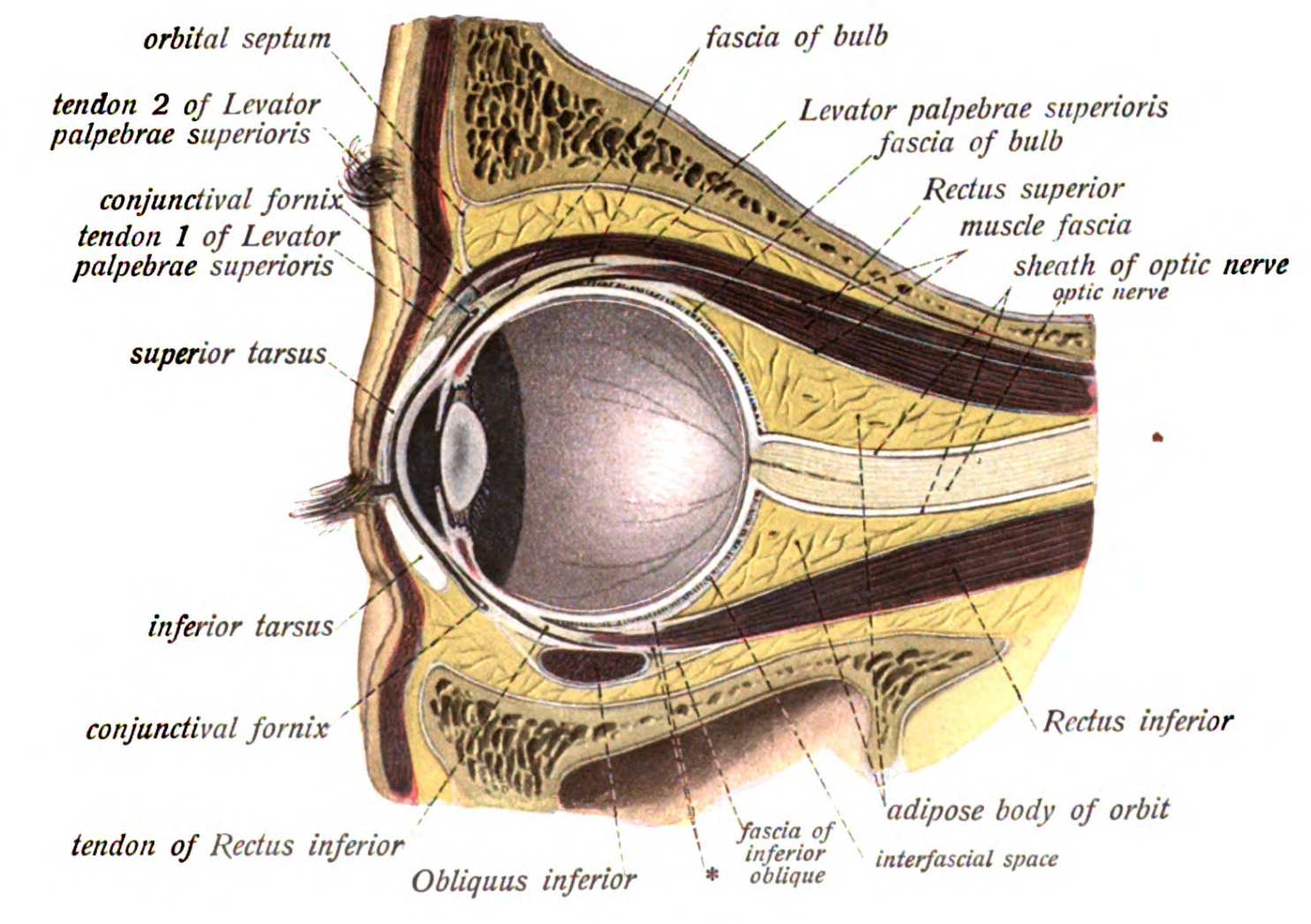 An anatomical illustration from the 1909 edition of Sobotta's Anatomy